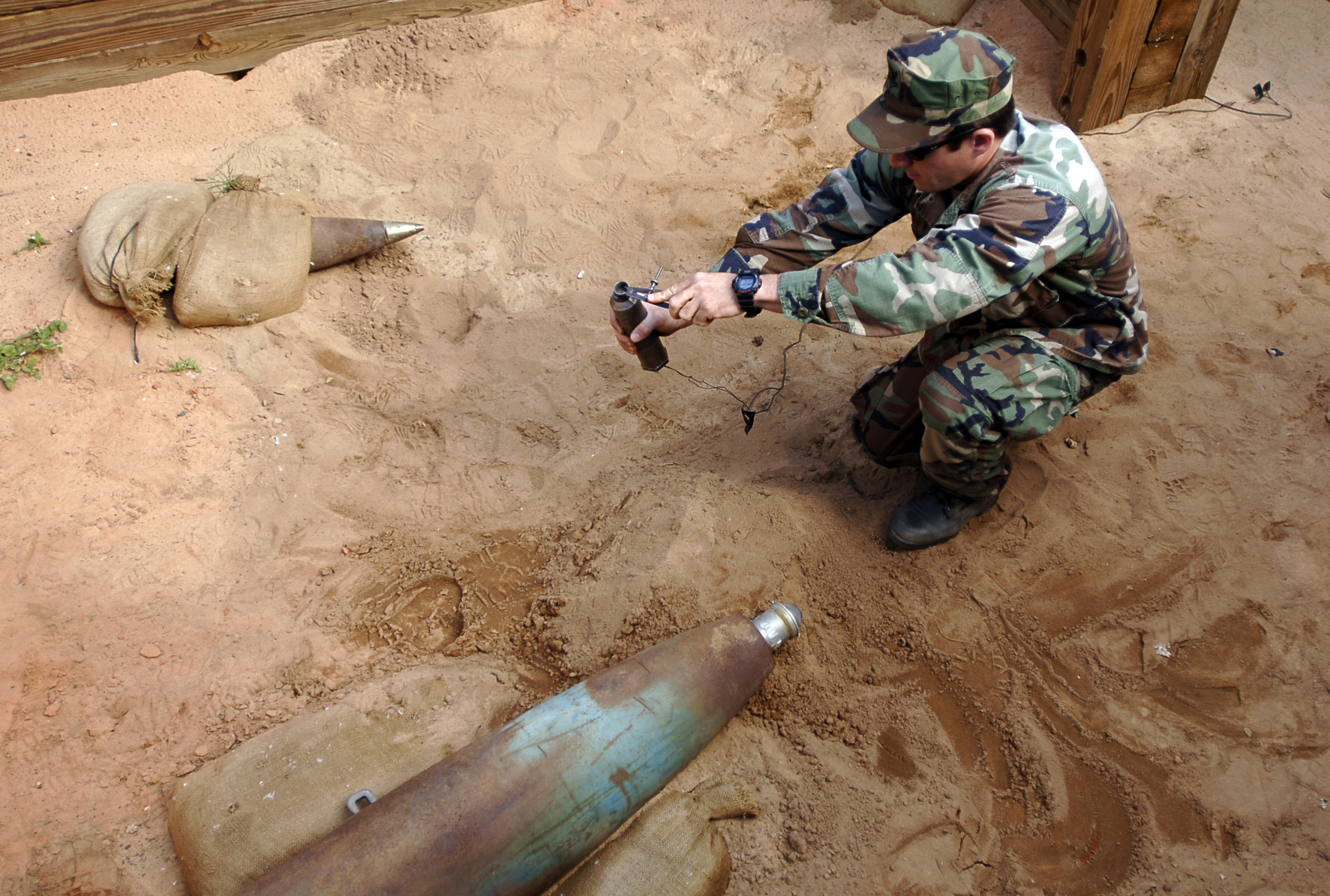 Eglin, Fla. (Oct. 31, 2006) – Quartermaster 2nd Class Clayton Hatton prepares an explosive charge used in rendering unexploded ordnance safe to handle. U.S. Navy photo by Mass Communication Specialist 2nd Class Jayme Pastoric (RELEASED)